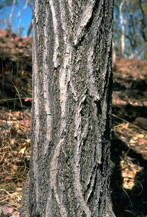 Bark on the trunk of Eucalyptus jensenii south of the Adelaide River, Northern Territory